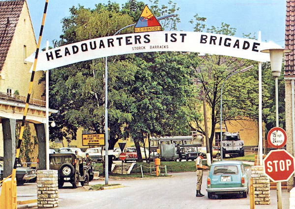 Main gate at Illesheim, (Storck Barracks), West Germany, 1968